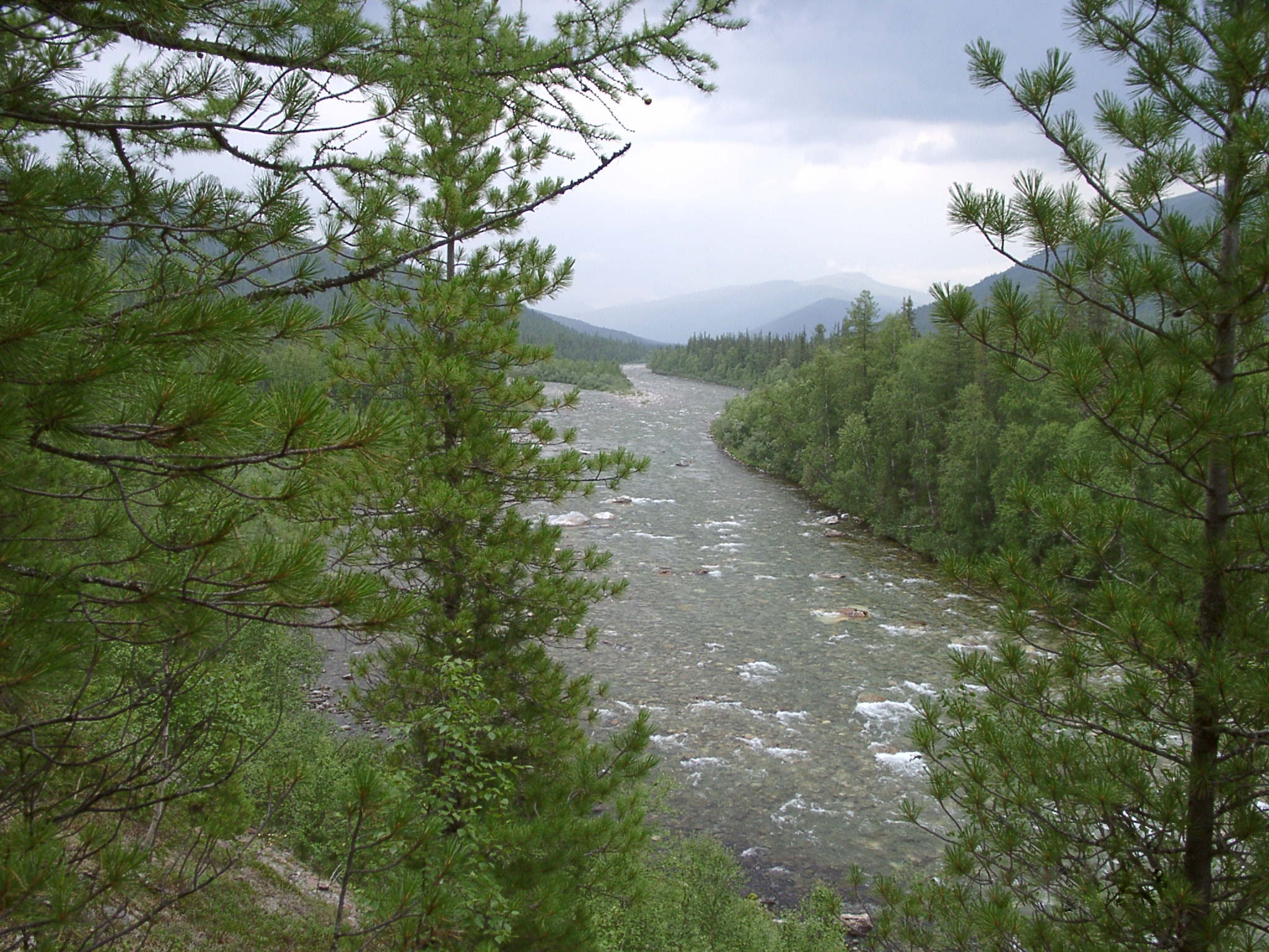 View over a river. Khanty-Mansi Autonomous Okrug (Russia).